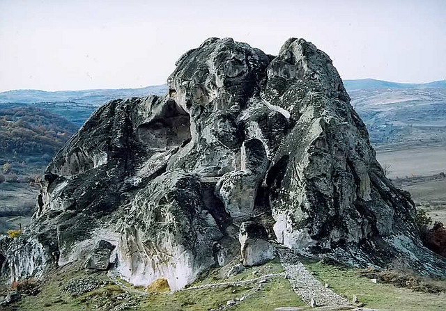 Cocev Kamen, Archeological site in the Republic of Macedonia